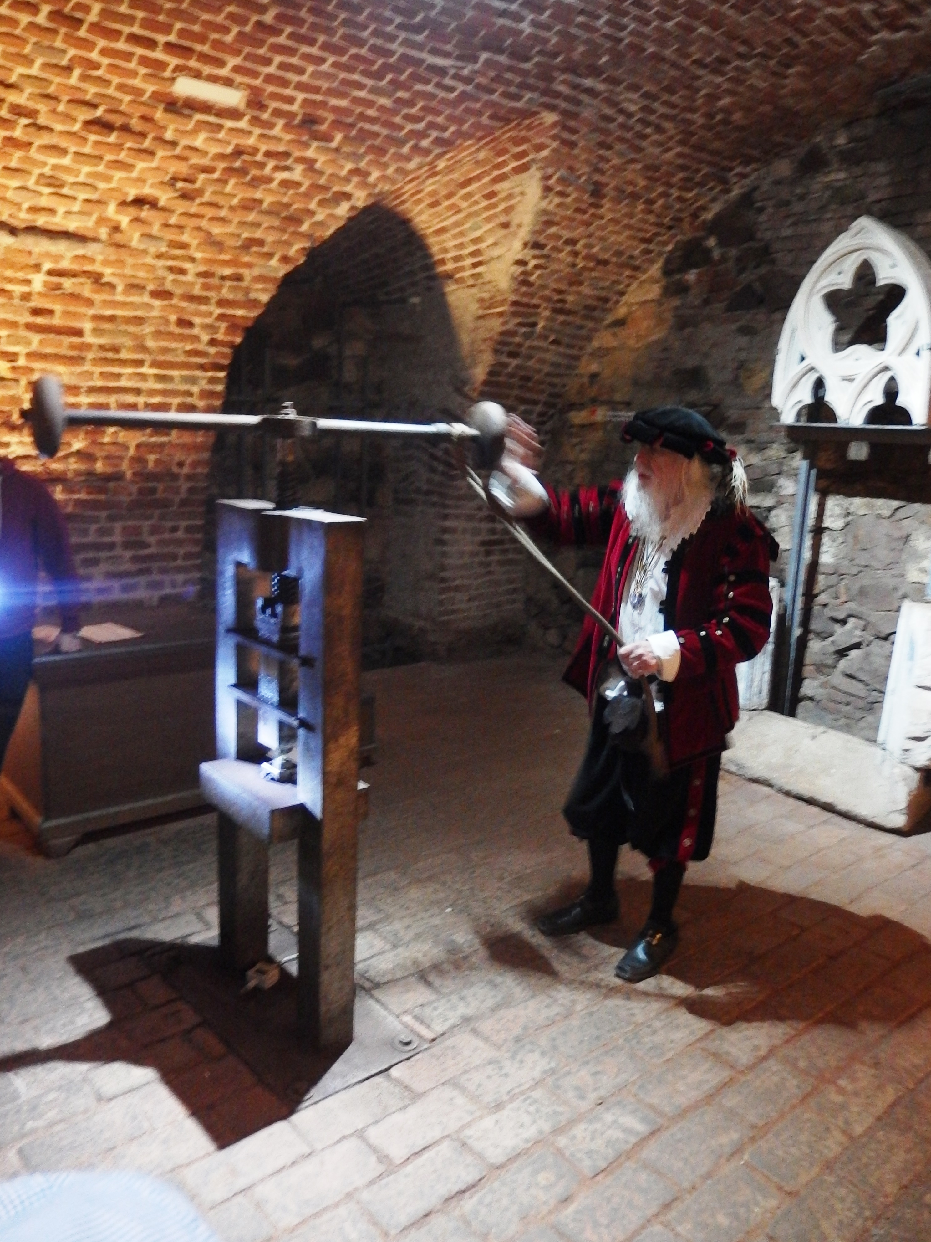 Brno, Czech Republic. Mintmaster's cellar.